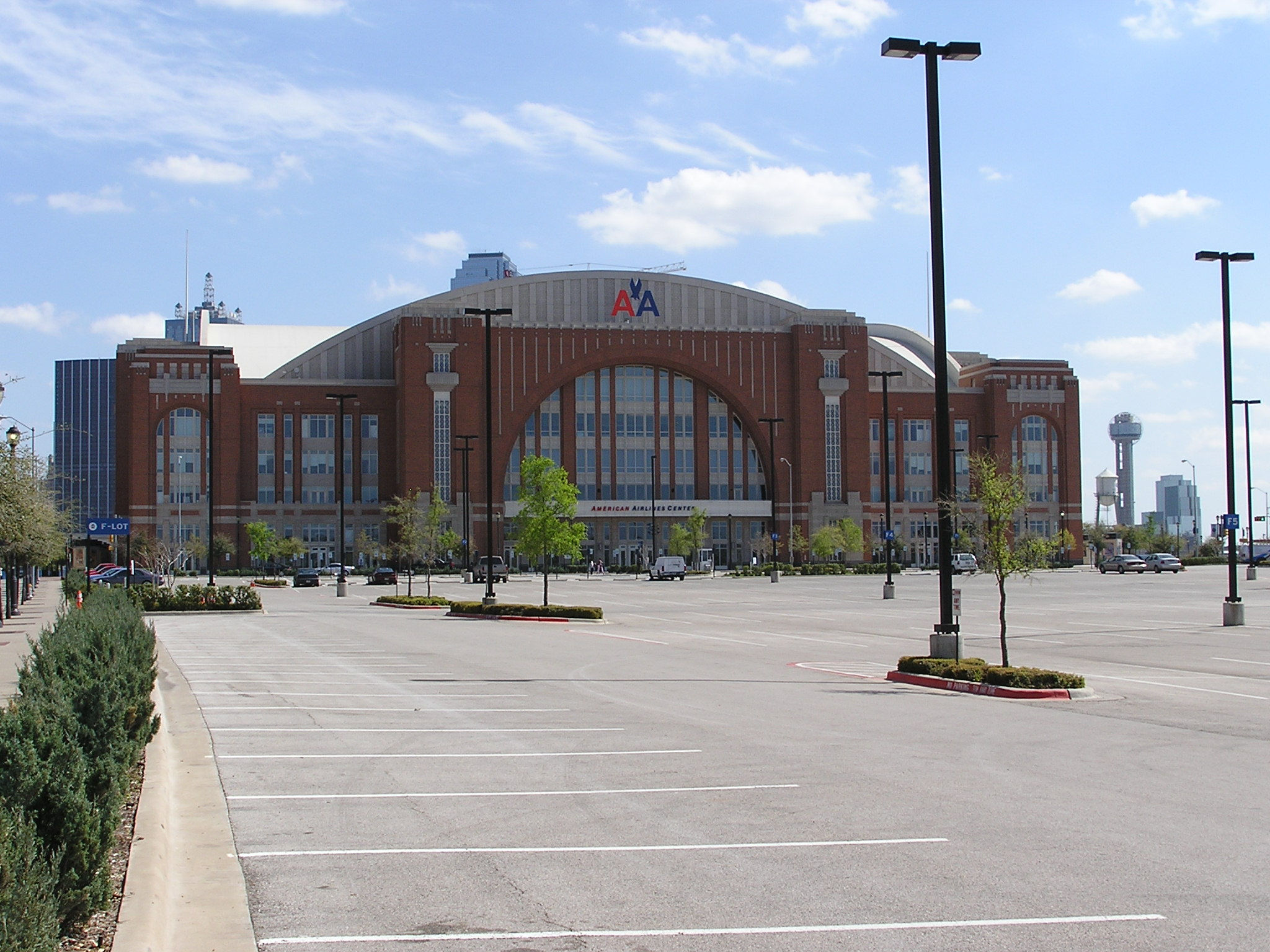 American Airlines Center, Dallas